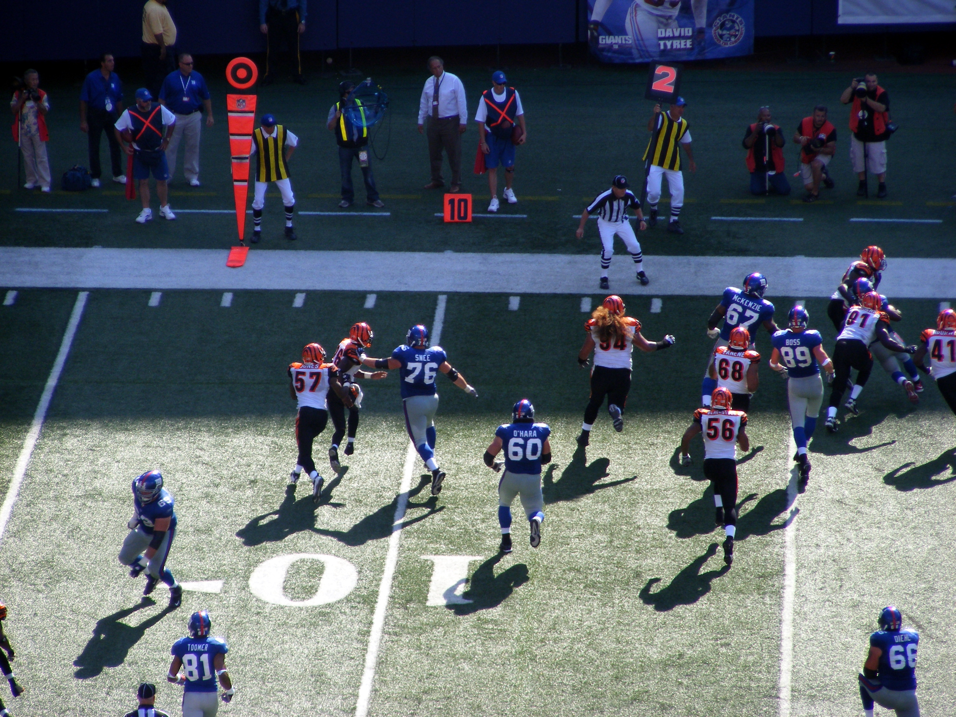 Chris Snee and Shaun O'Hara.